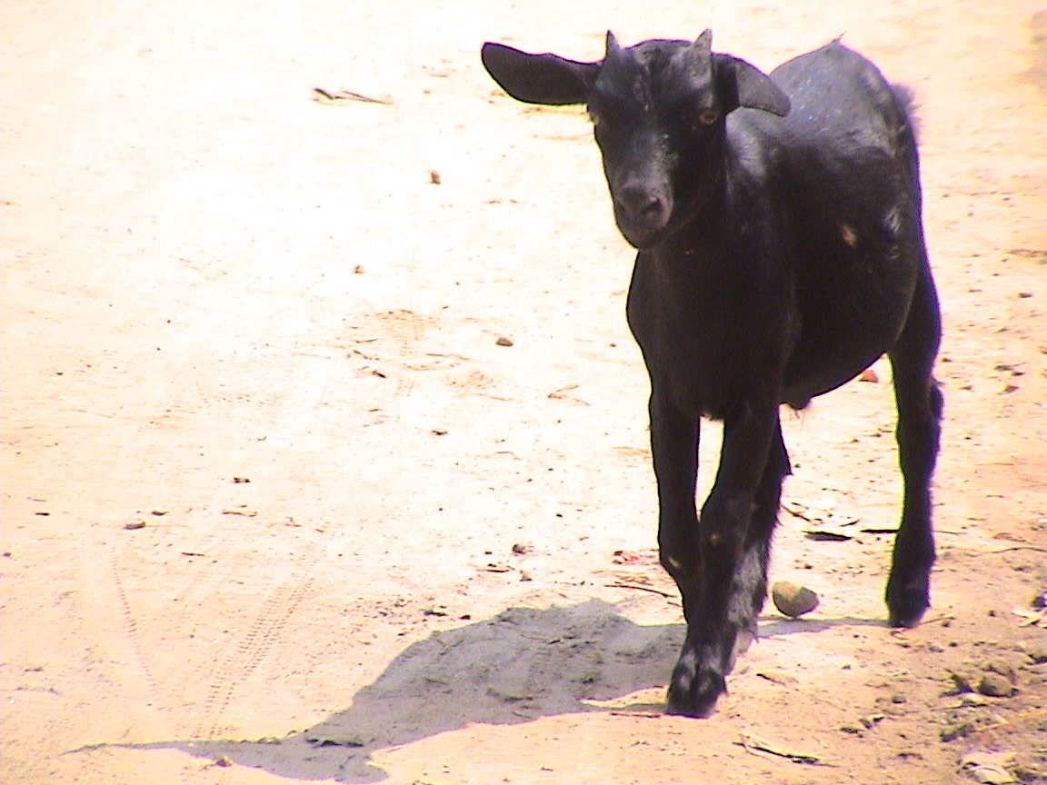 black bengal goat baby. --Mamun2a 05:02, 14 October 2006 (UTC)